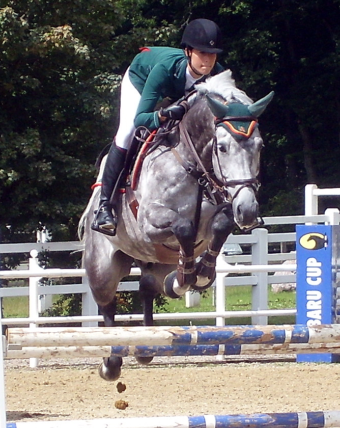 Alexandra Fricker in contest Albführen Country Classica 2012